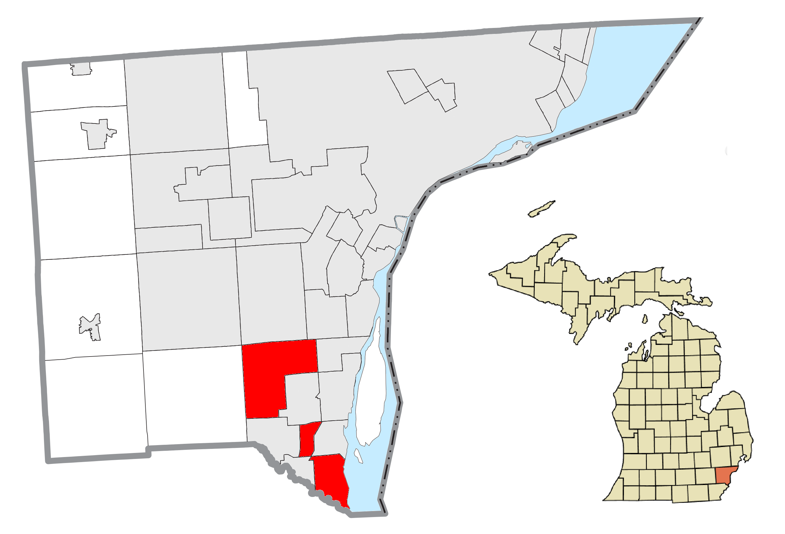 Brownstown Charter Township, MI